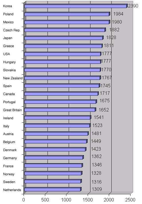 Annual work hours (source: OECD (2004), OECD in Figures, OECD, Paris. [1])